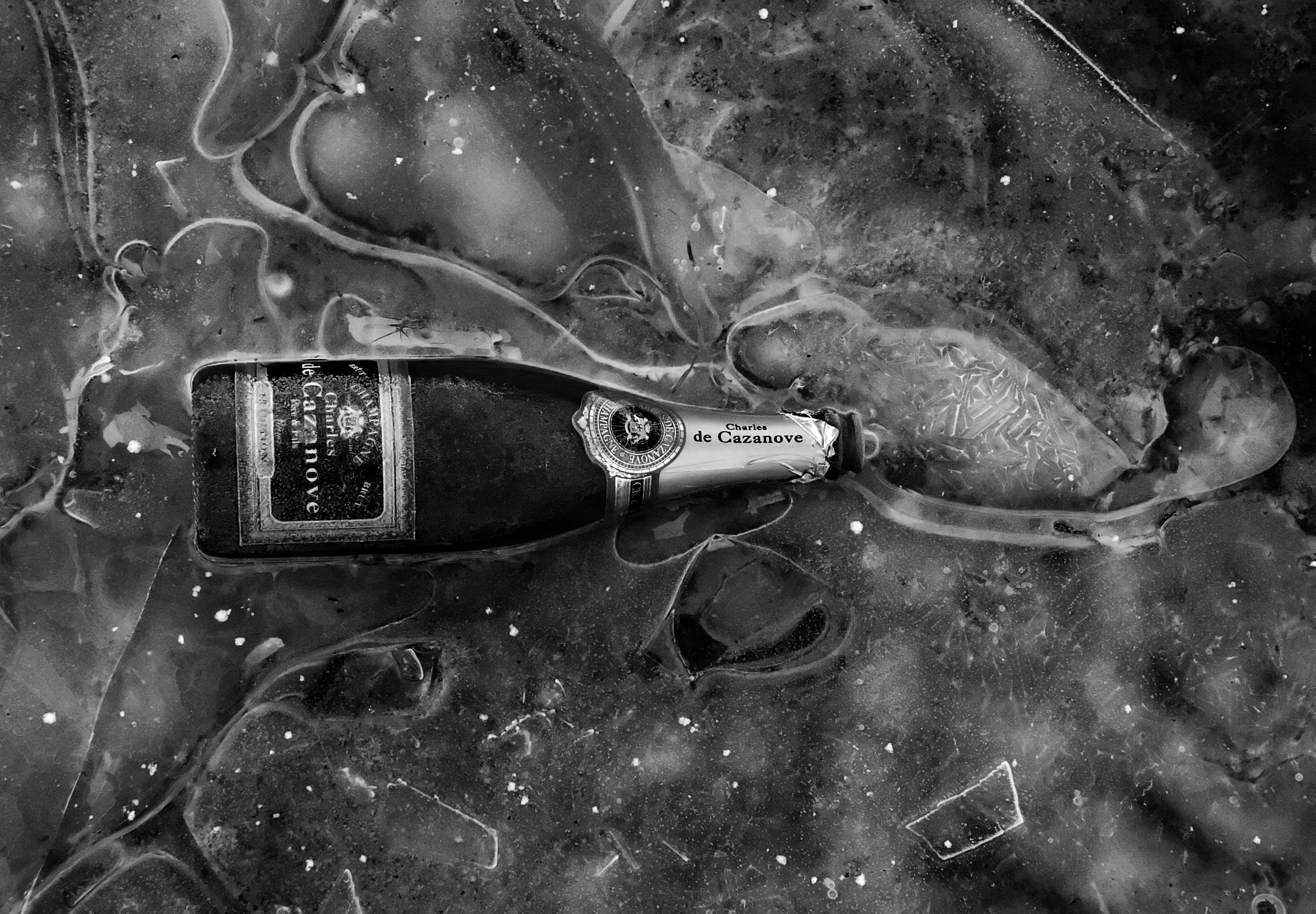 French Champagne